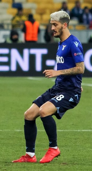 Luis Alberto Romero